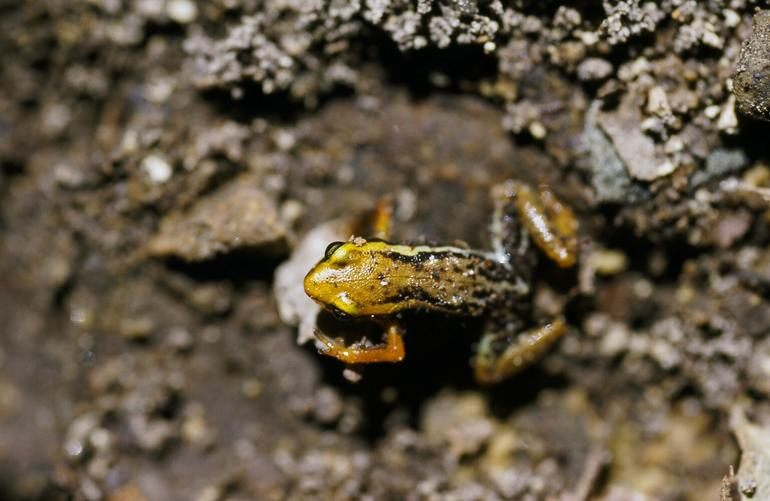 Eleutherodactylus orientalis